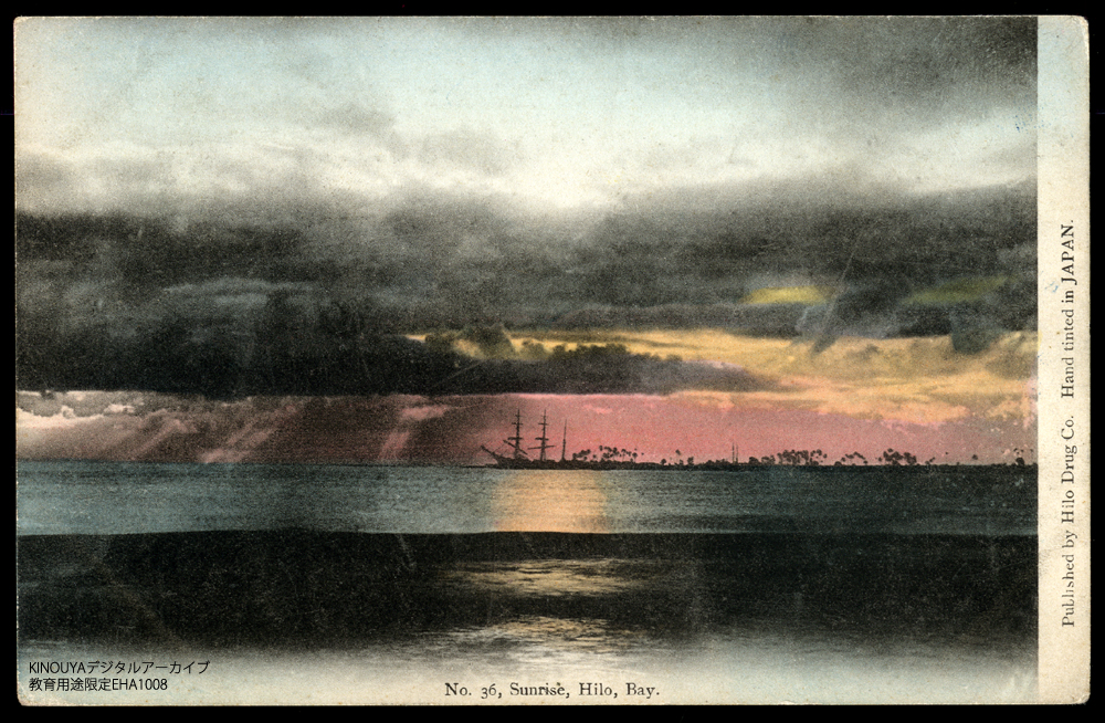 Old postcard of Hilo Bay, Hawaii 1908